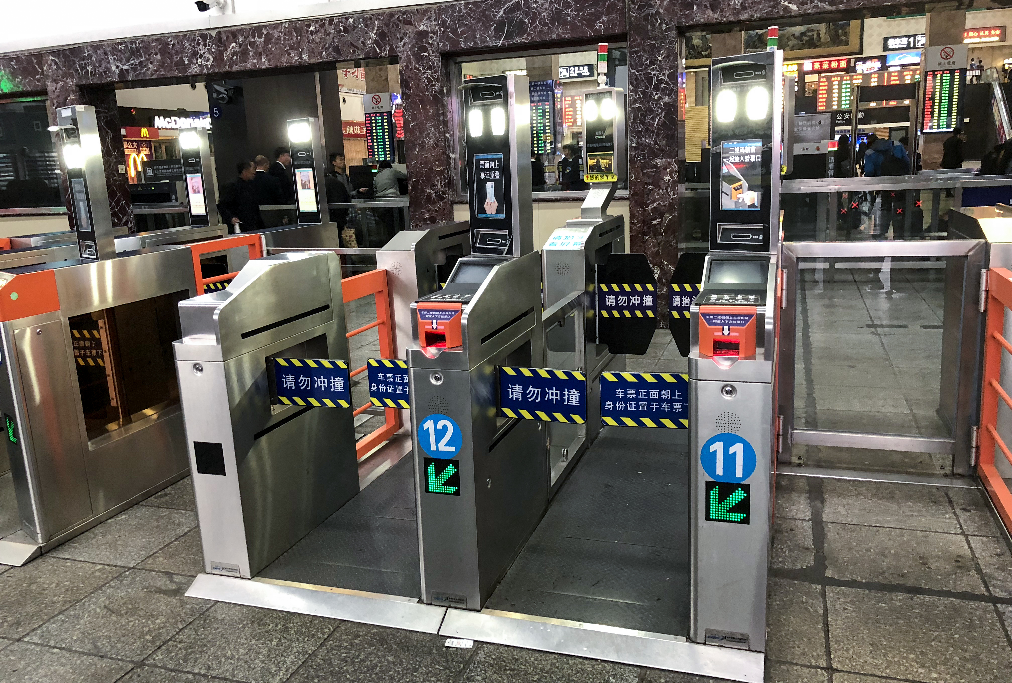 Looks quite new.